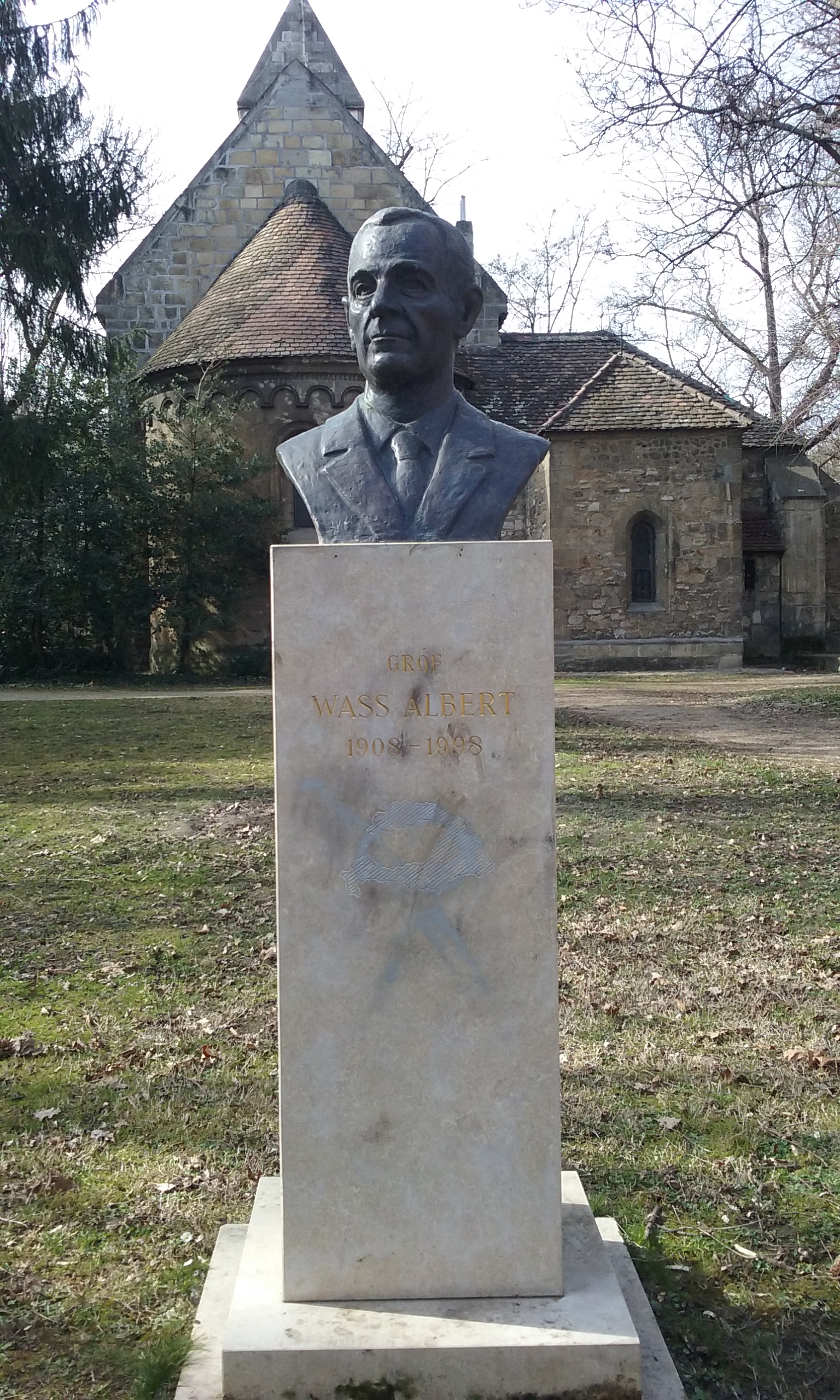 Bust of Albert Wass by János Andrássy Kurta on Margaret Island, Budapest, Hungary on 29 February 2020